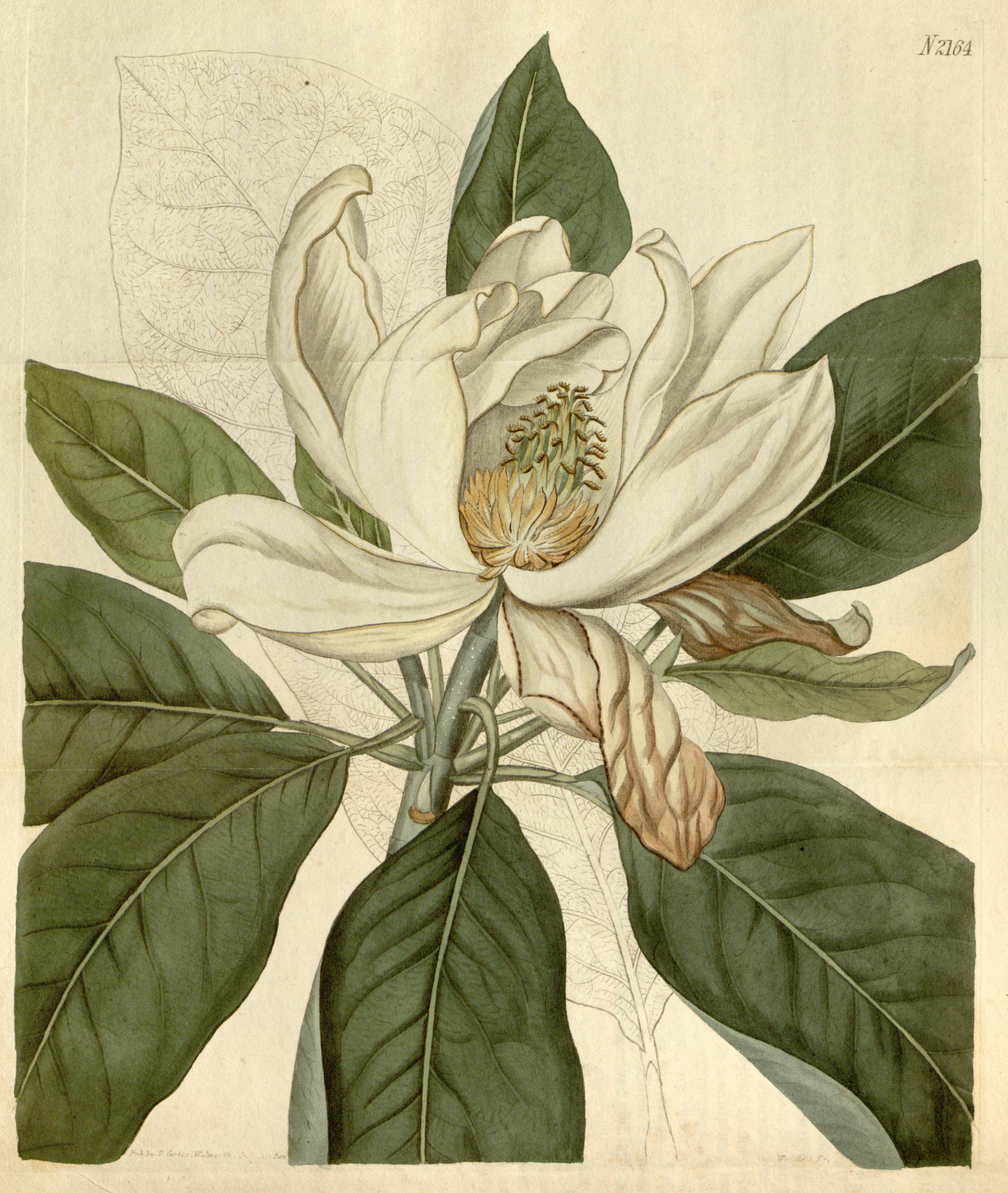 Magnolia × thompsoniana, as Magnolia glauca var. major